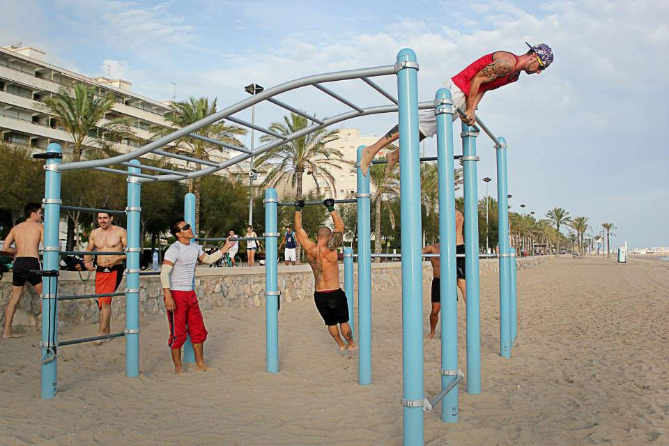 Street Workout for Spartans Tarraco in Calafell. Project by Microarquitectura.